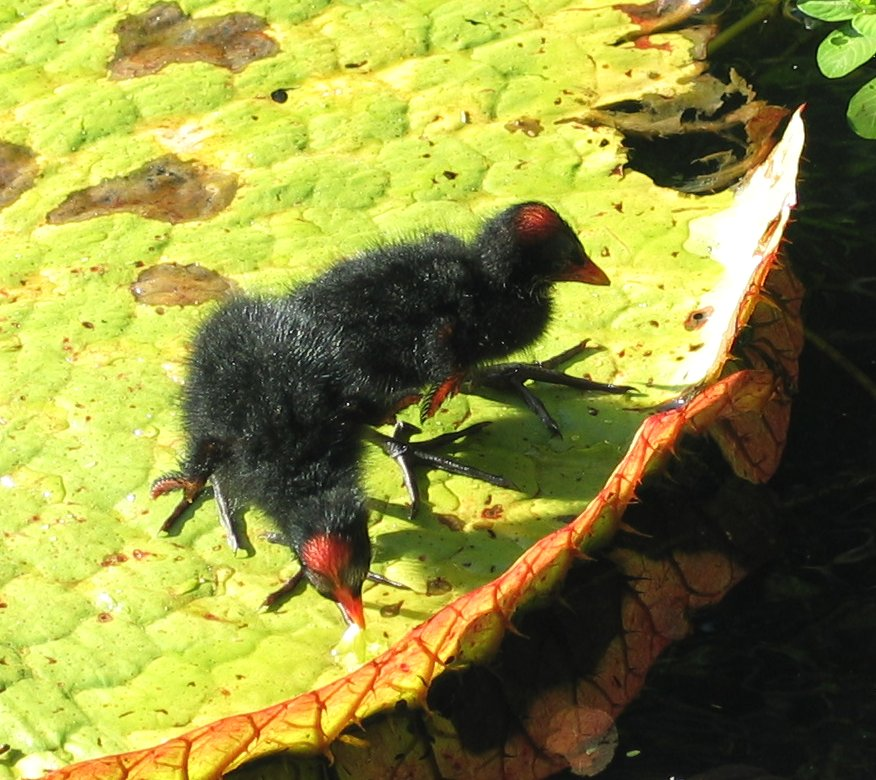 ʻAlae ʻula or Hawaiian Moorhen Gallinula galeata sandvicensis, two chicks in a manmade pond on a giant waterlily (Victoria sp.)